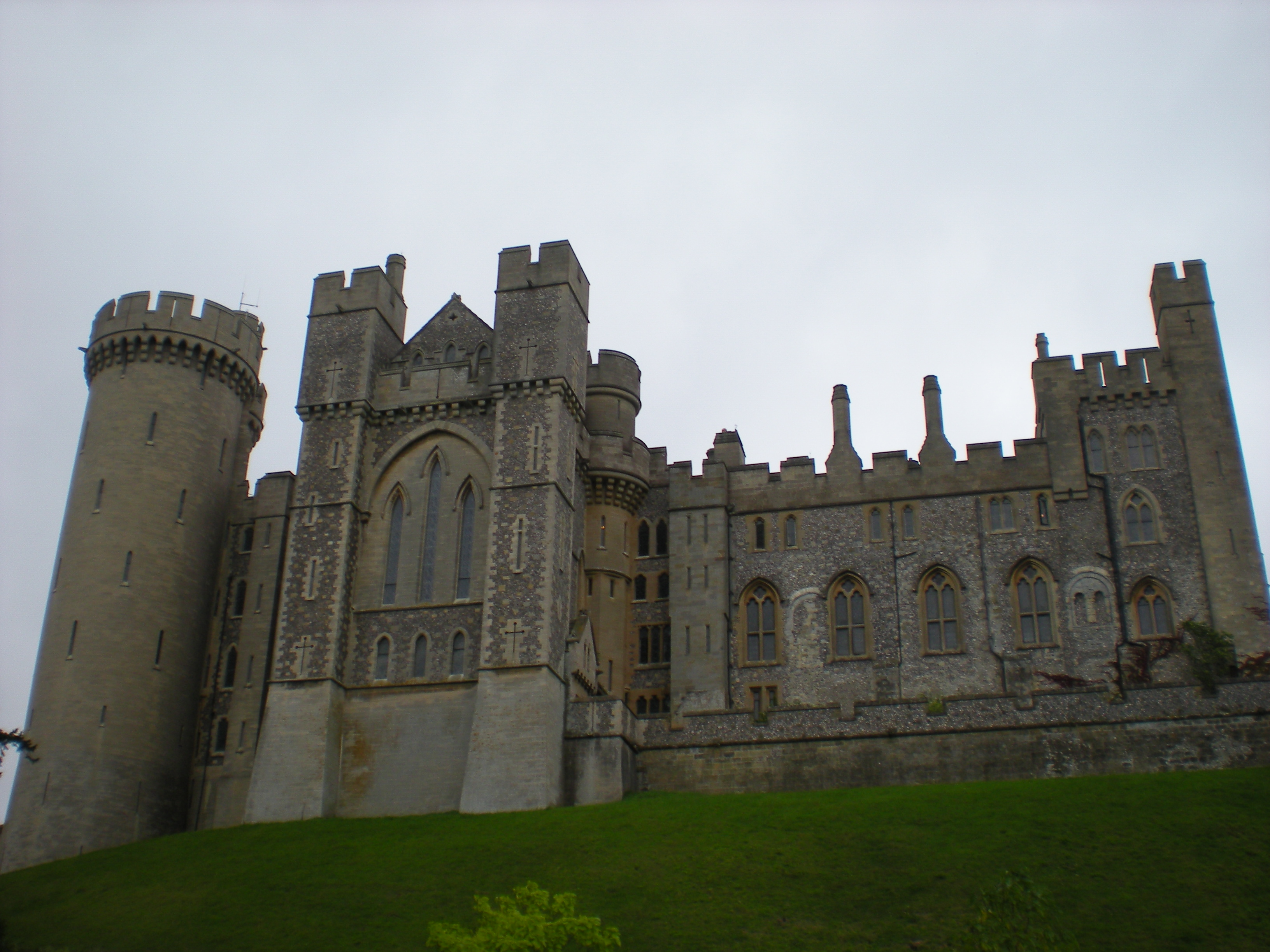 Arundel Castle in Arundel, West Sussex, England.